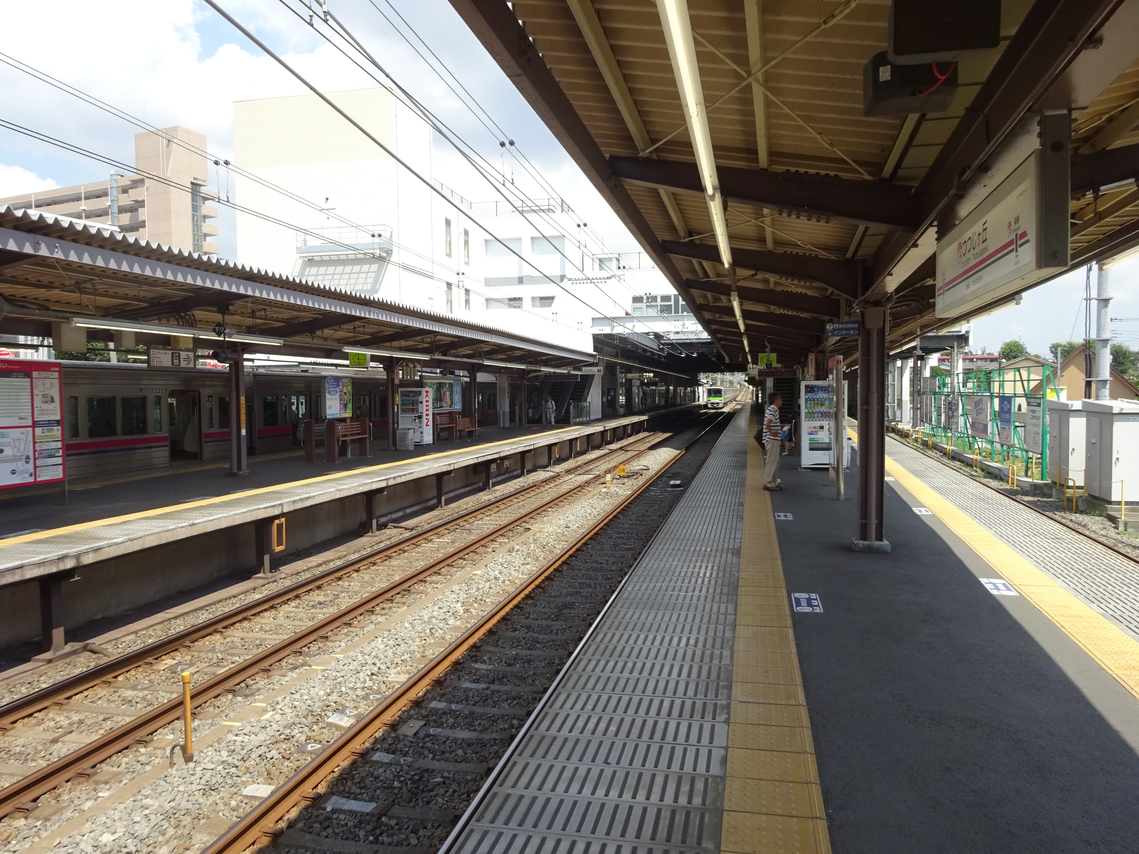 Platforms of Tsutsujigaoka Station (Tokyo)